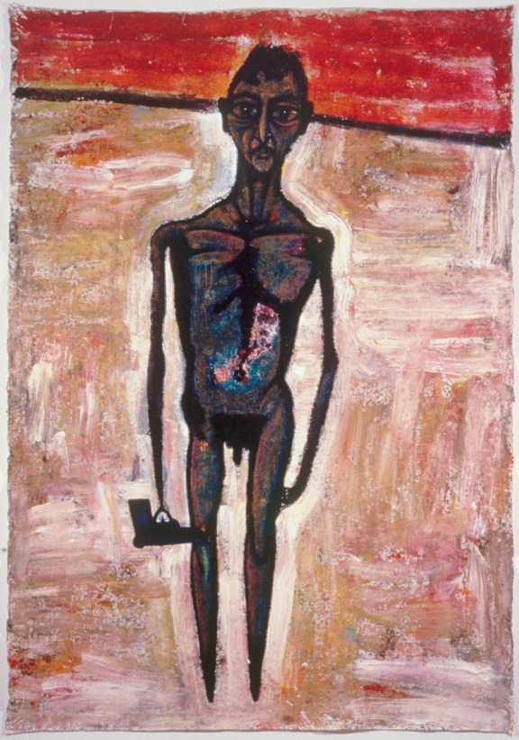 120 x 84 inches, acrylic on canvas